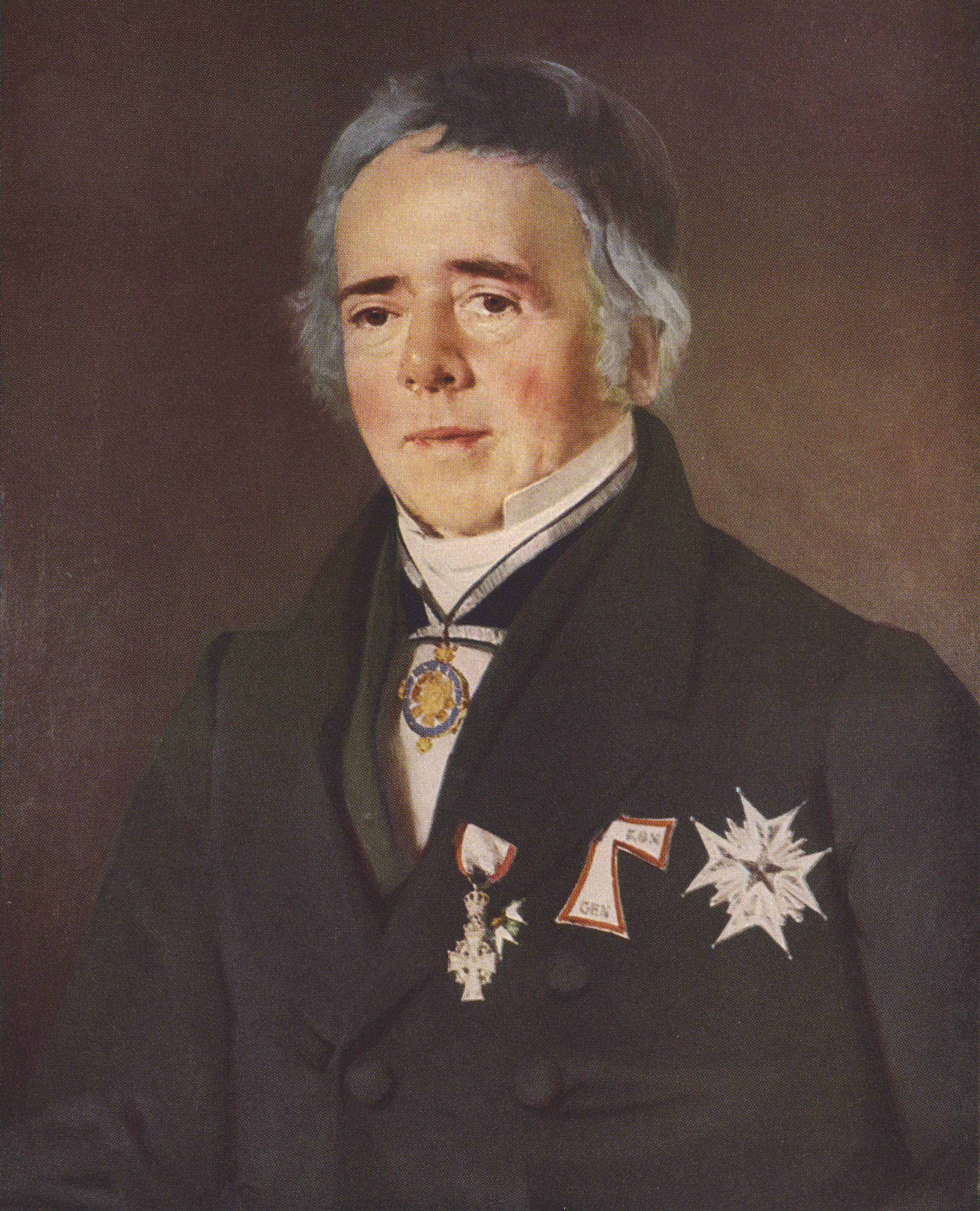 Hans Christian Ørsted (1777-1851), Danish physicist and chemist.